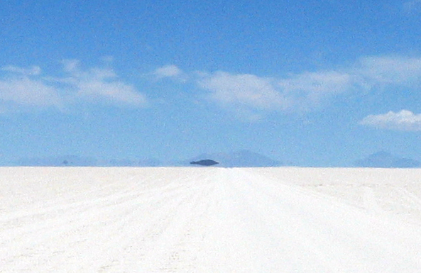 Isla de Pescado, Bolivia, Salar de Uyuni